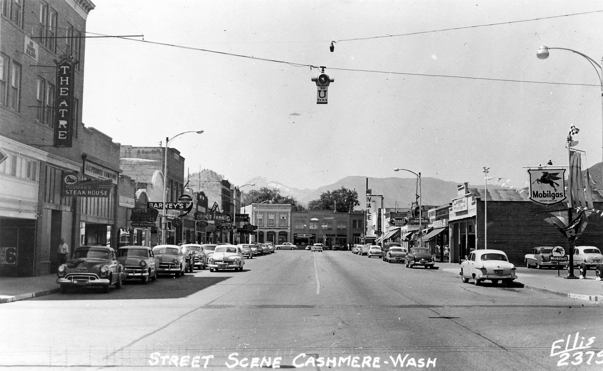 An photo postcard depicting the Main street of Cashmere, Chelan County, Washington, USA. One of many photographed by the prolific J. Boyd Ellis. (Ellis 2375)